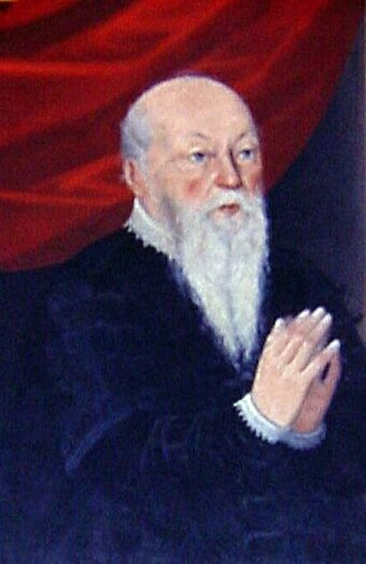 Florián Gryspek from Gryspach (1509-1588)